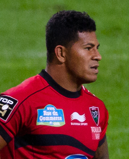 Top 14 — 29 September 2012, Stadium. Match between: Stade toulousain — RC Toulonnais